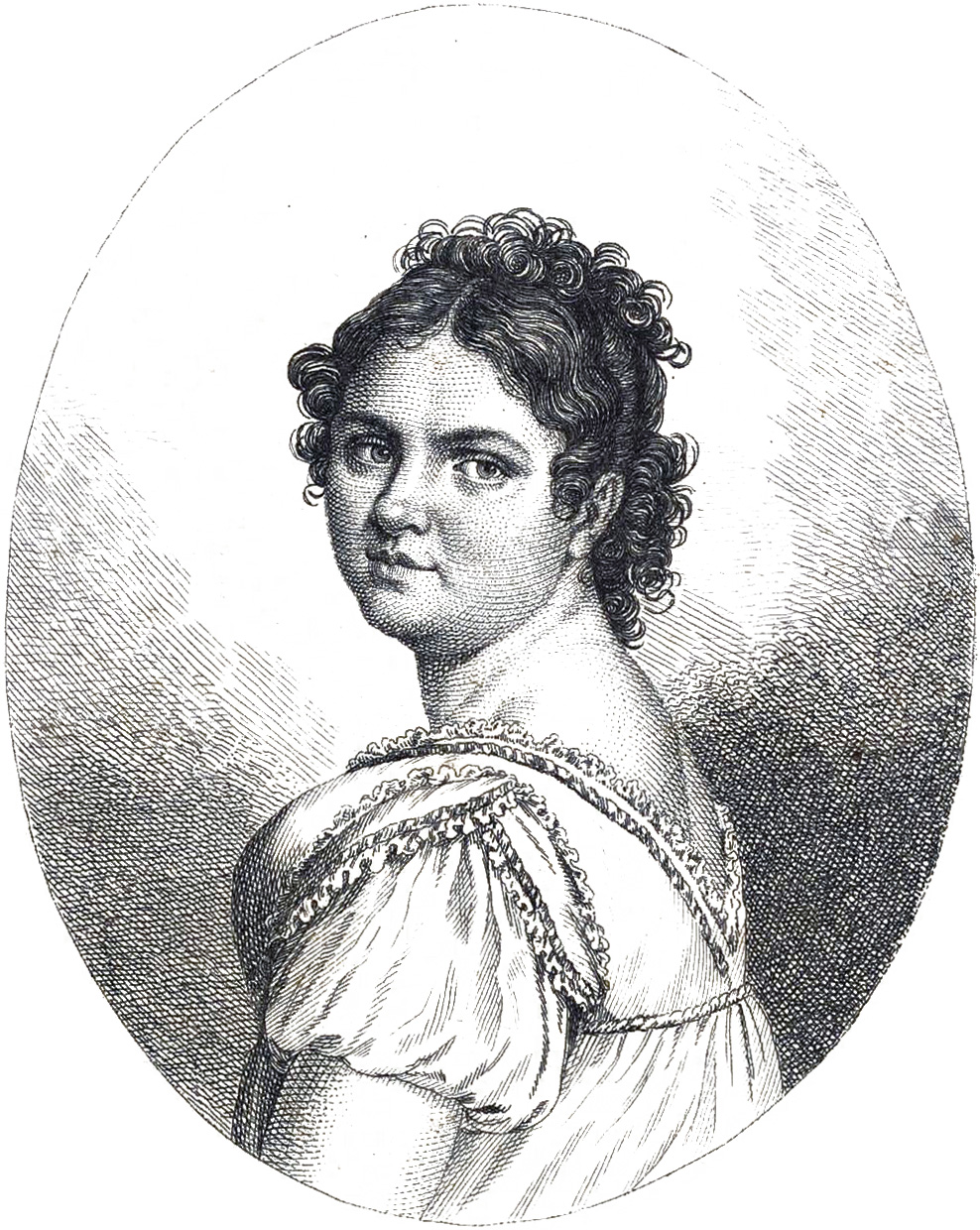 Portrait of the Italian contralto Geltrude Righetti-Giorgi (1793–1862)